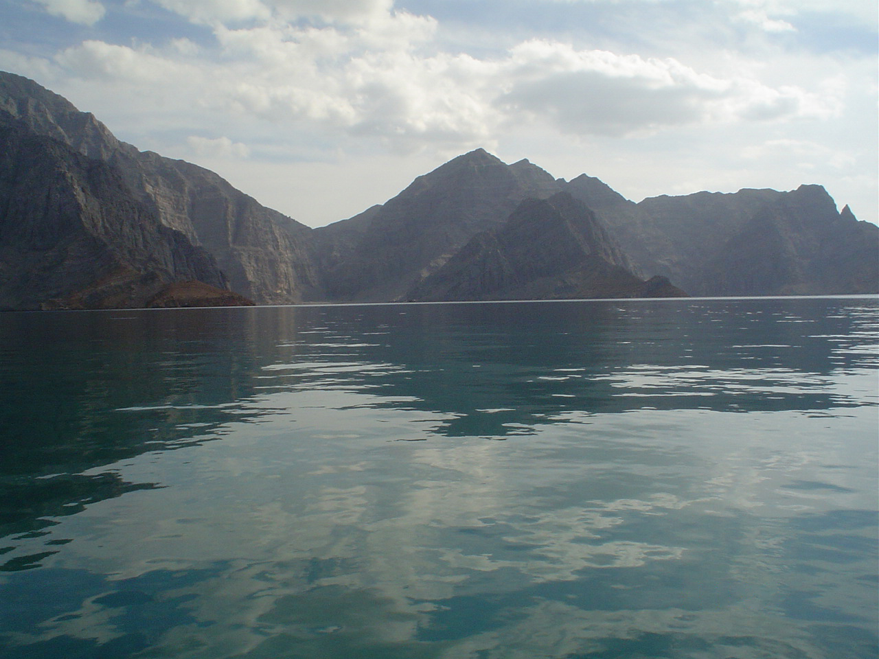 Mofsound, personal camera